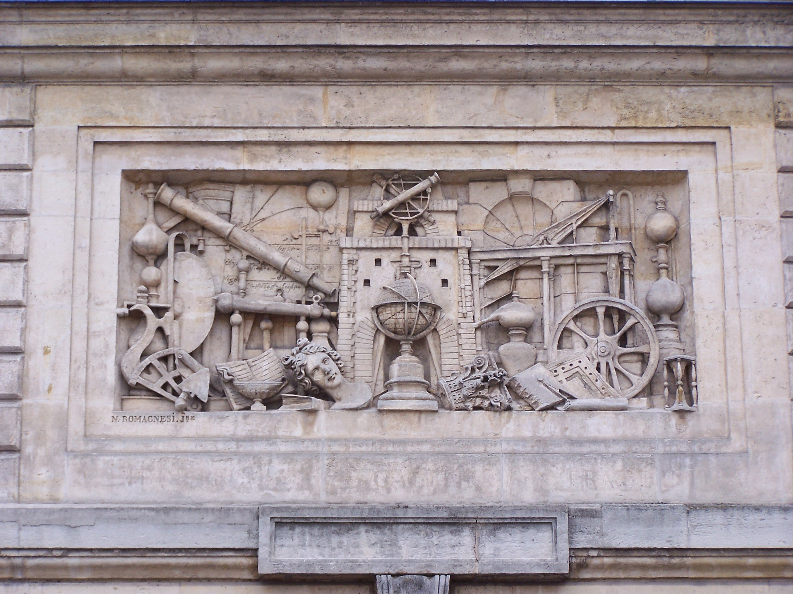 Bas-relief à l'entrée historique de l'école Polytechnique de Paris